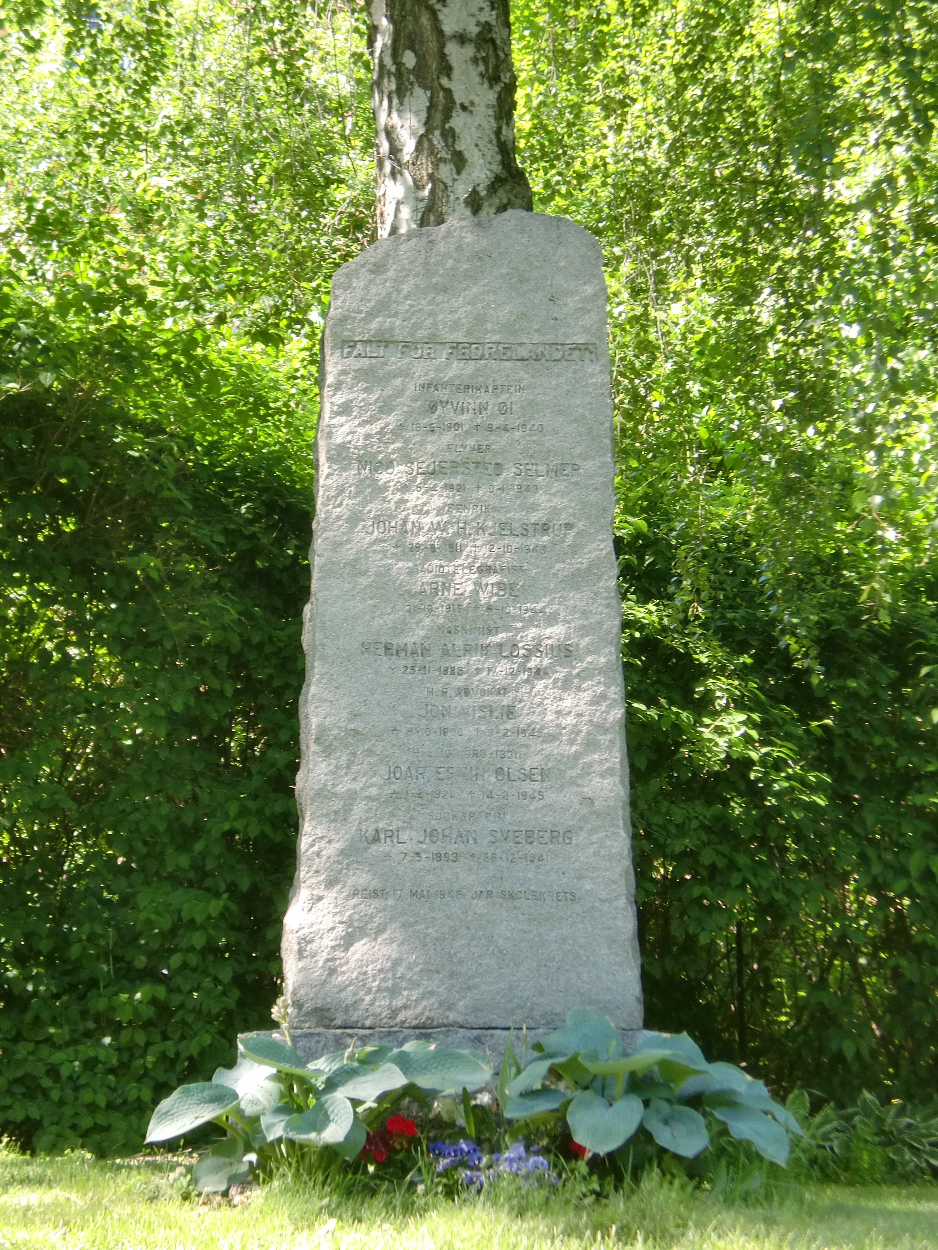 Memorial for war victims (1940-1945) at Jar, Norway.